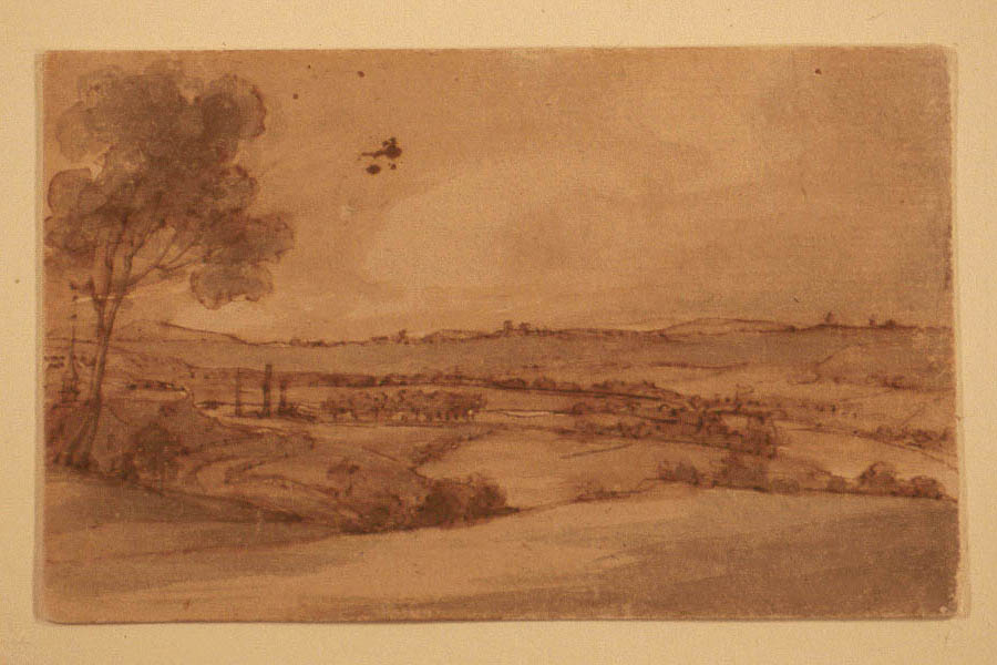 A landscape sketch, ink, sepia wash on cardboard, of the scene at Saratoga, New York that was the site of General John Burgoyne's surrender in 1777. This sketch was made in anticipation of Trumbull's painting Surrender of General Burgoyne in the 1820s.